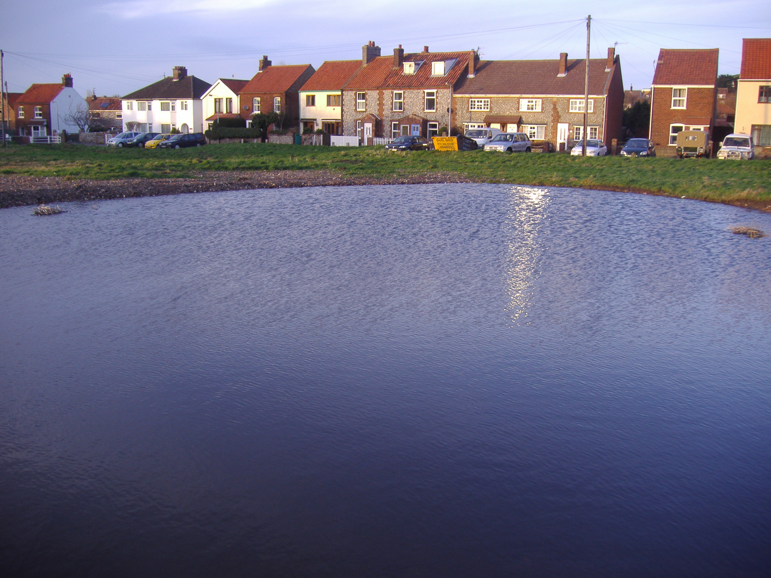 A Digital Photograph of the Dew Pond on Beeston Regis Common, Taken by Stavros1 (talk) 19:33, 2 February 2008 (UTC) on the 2 February 2008